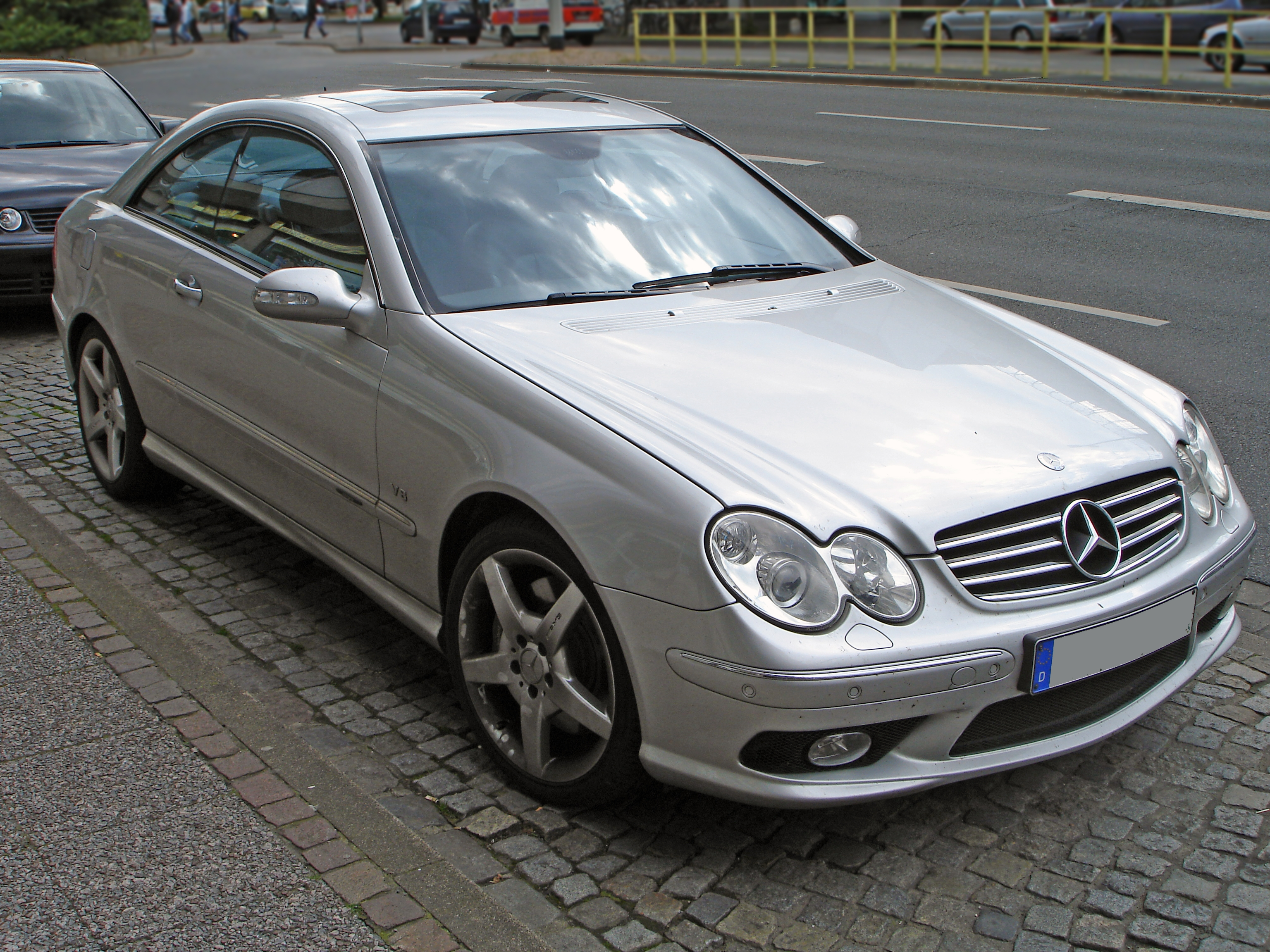 Mercedes CLK 500 V8 C209 front.